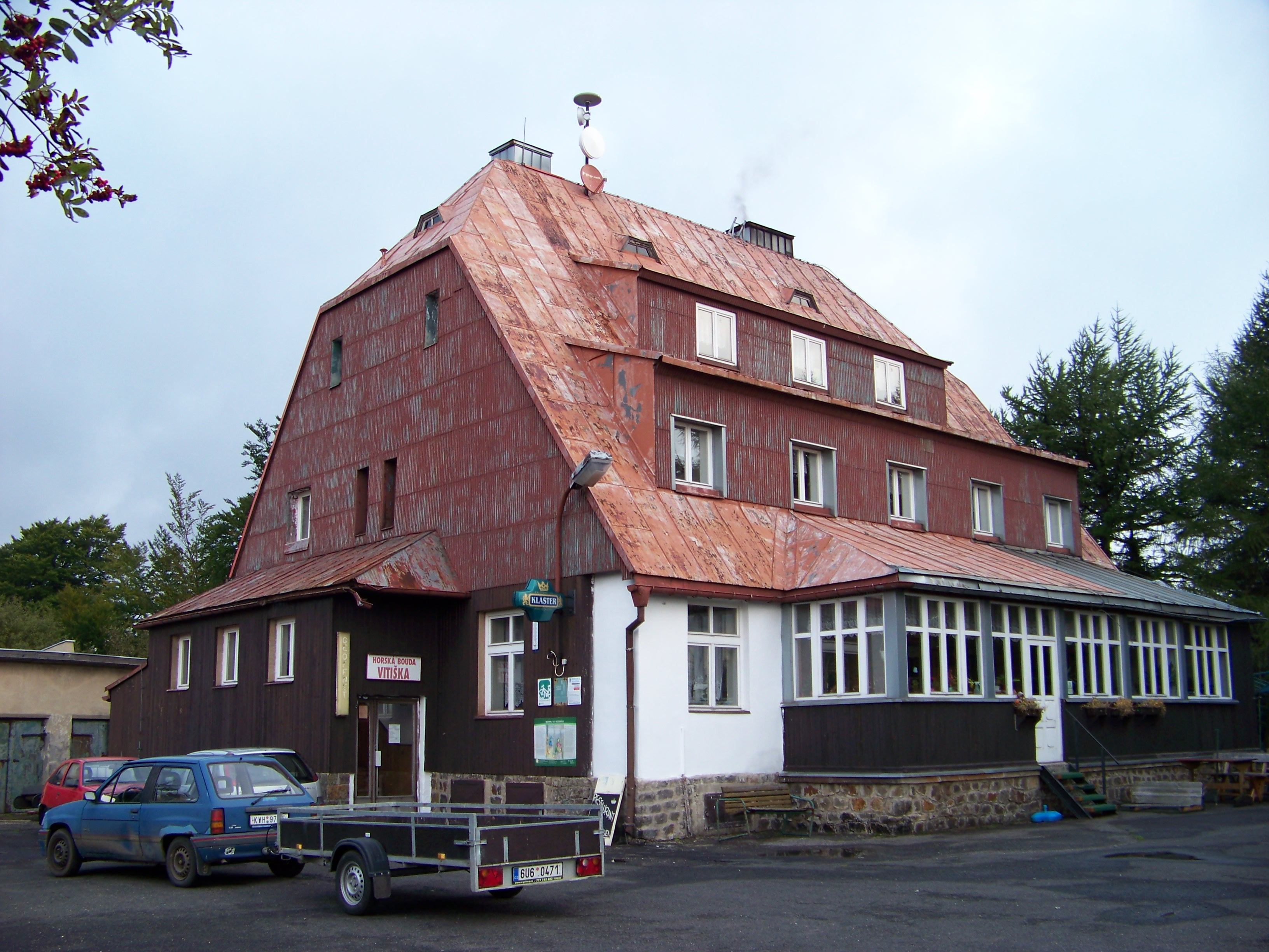 Mikulov, Teplice District, Ústí nad Labem Region, the Czech Republic. No. 114, Vitiška hut. - OpenStreetMap (Info)